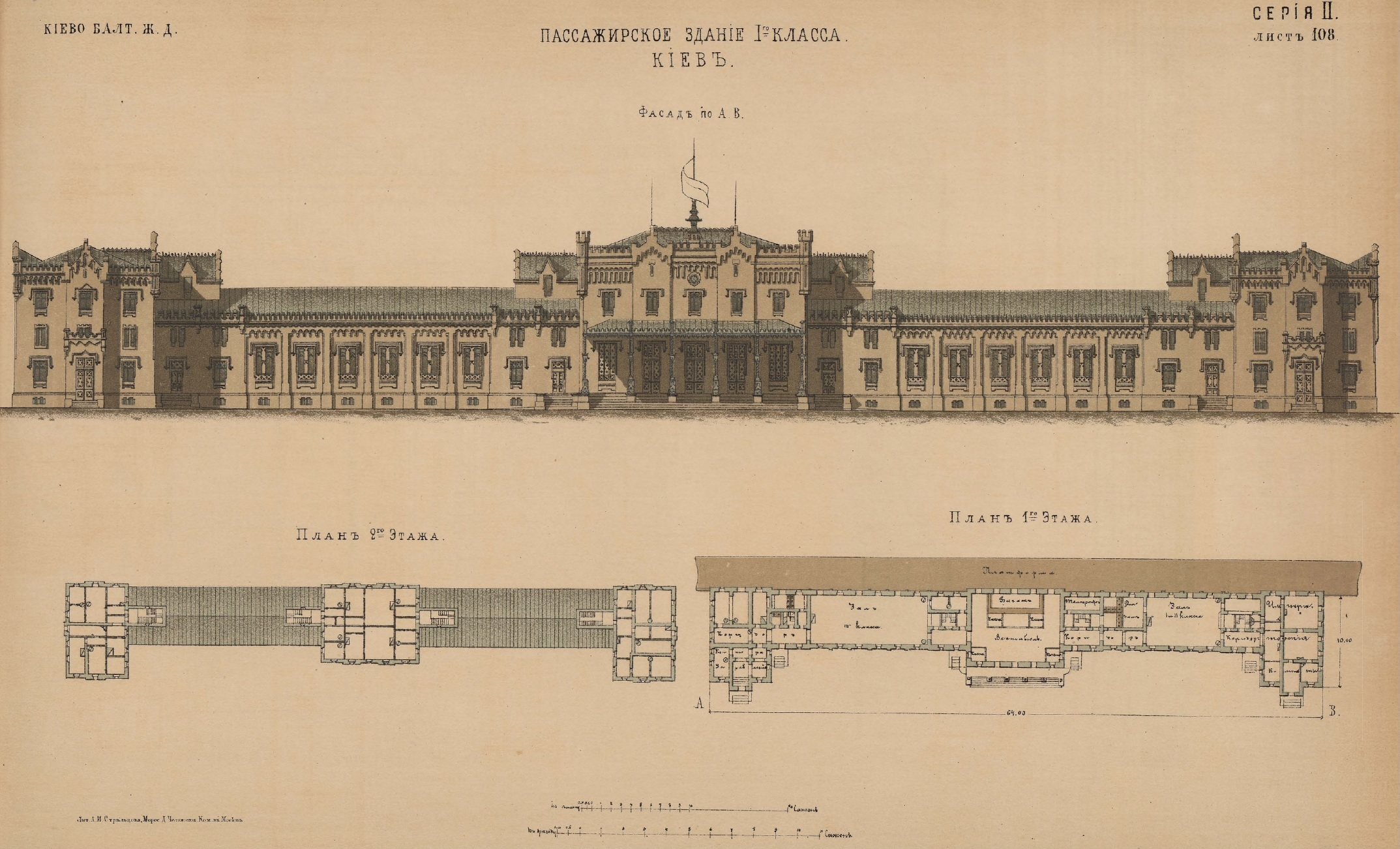 Railway station Kiev.